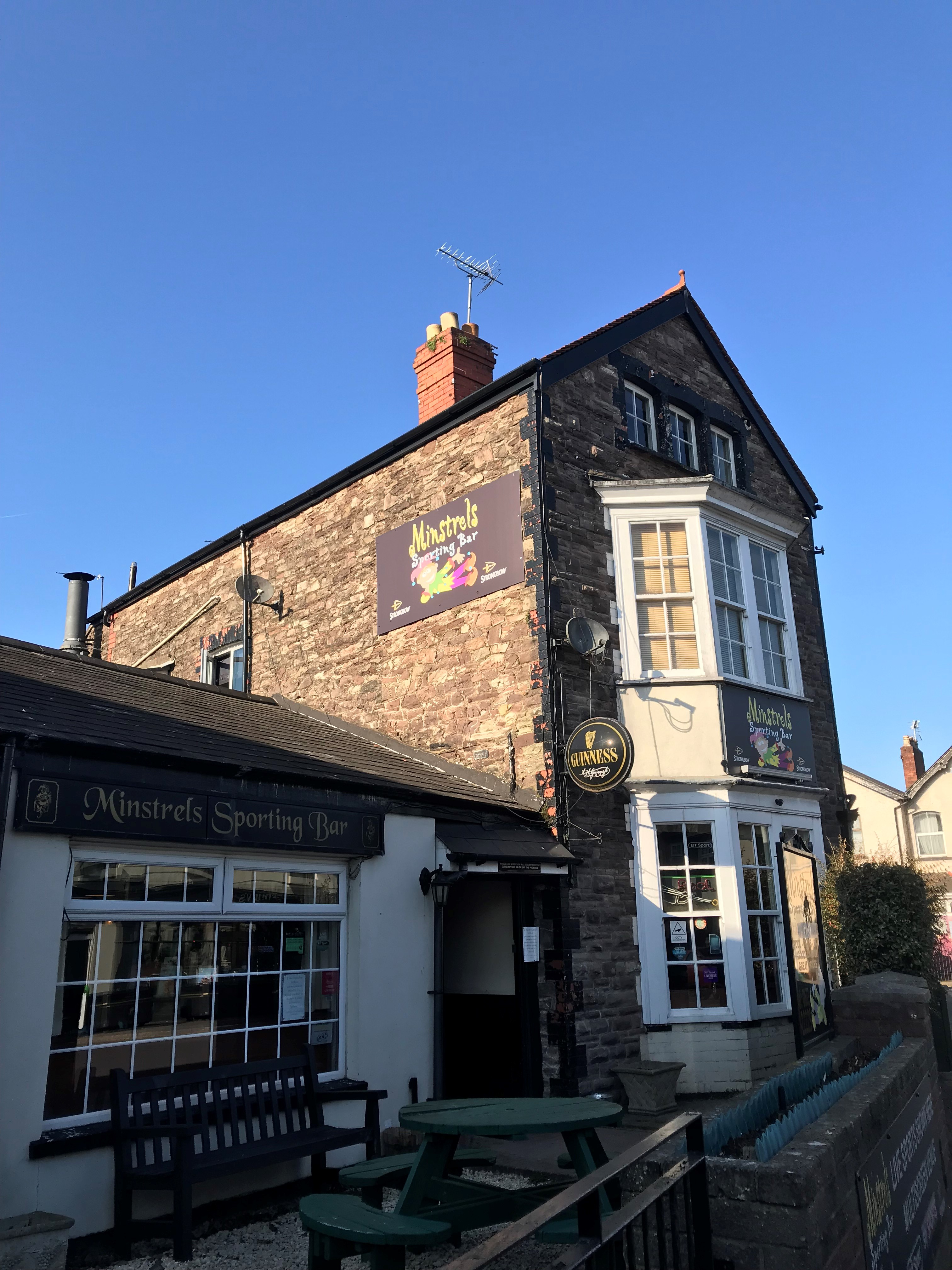 Minstrels Sports Bar, a popular pub in Caerleon, Wales.